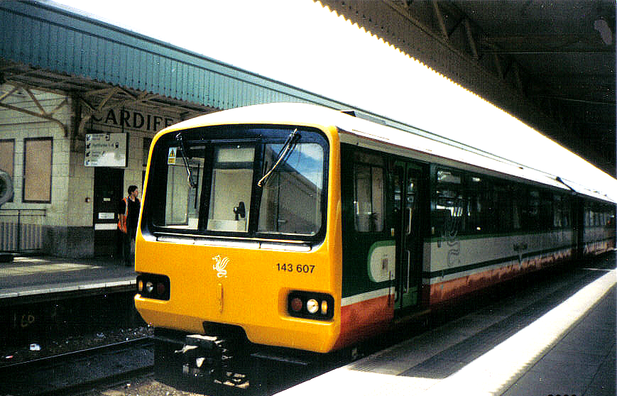 A Valley Railways train in Cardiff Central station.